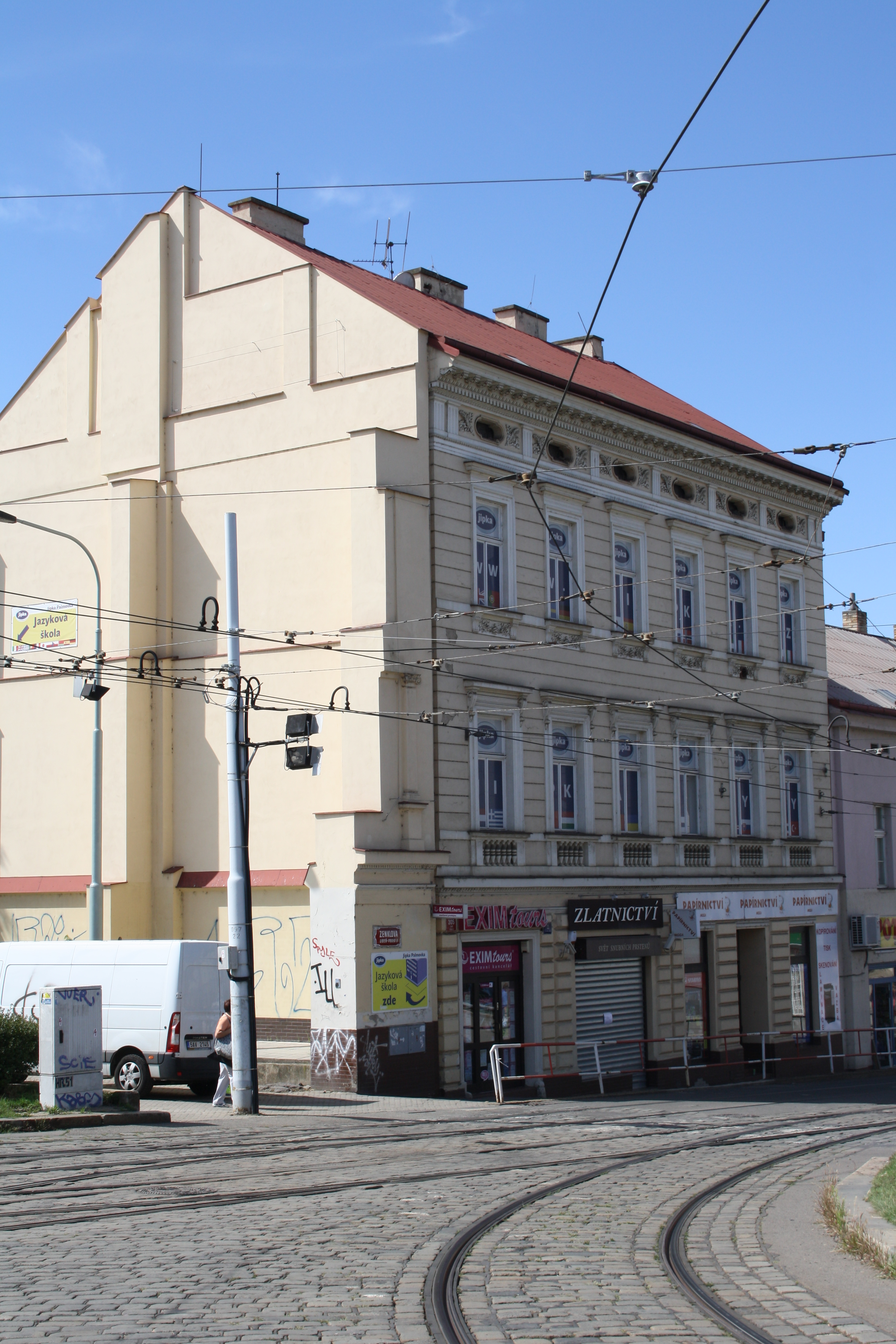 Zenklova 305/11, Prague, Liben, Czech republic